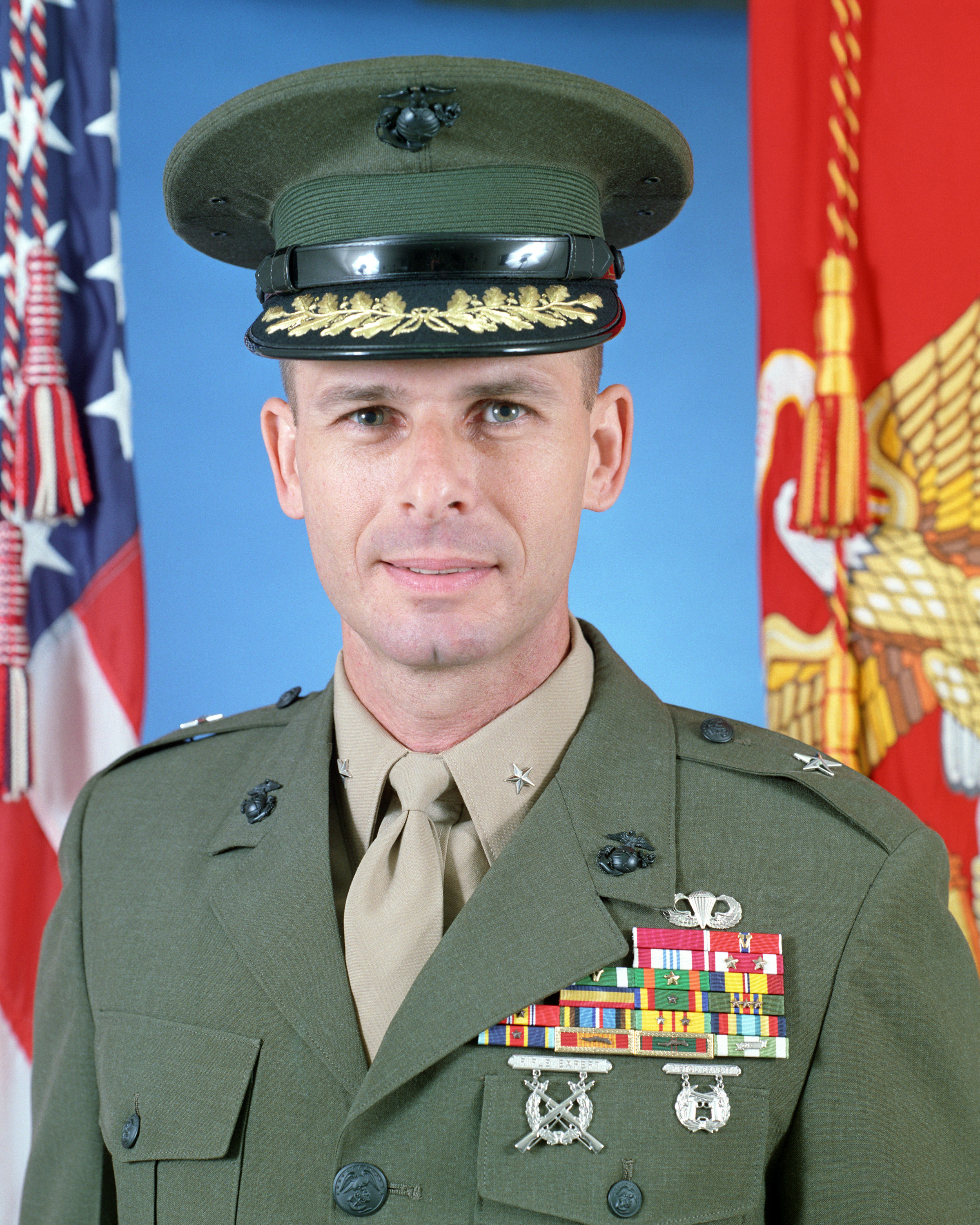 Peter Pace as a brigadier general.